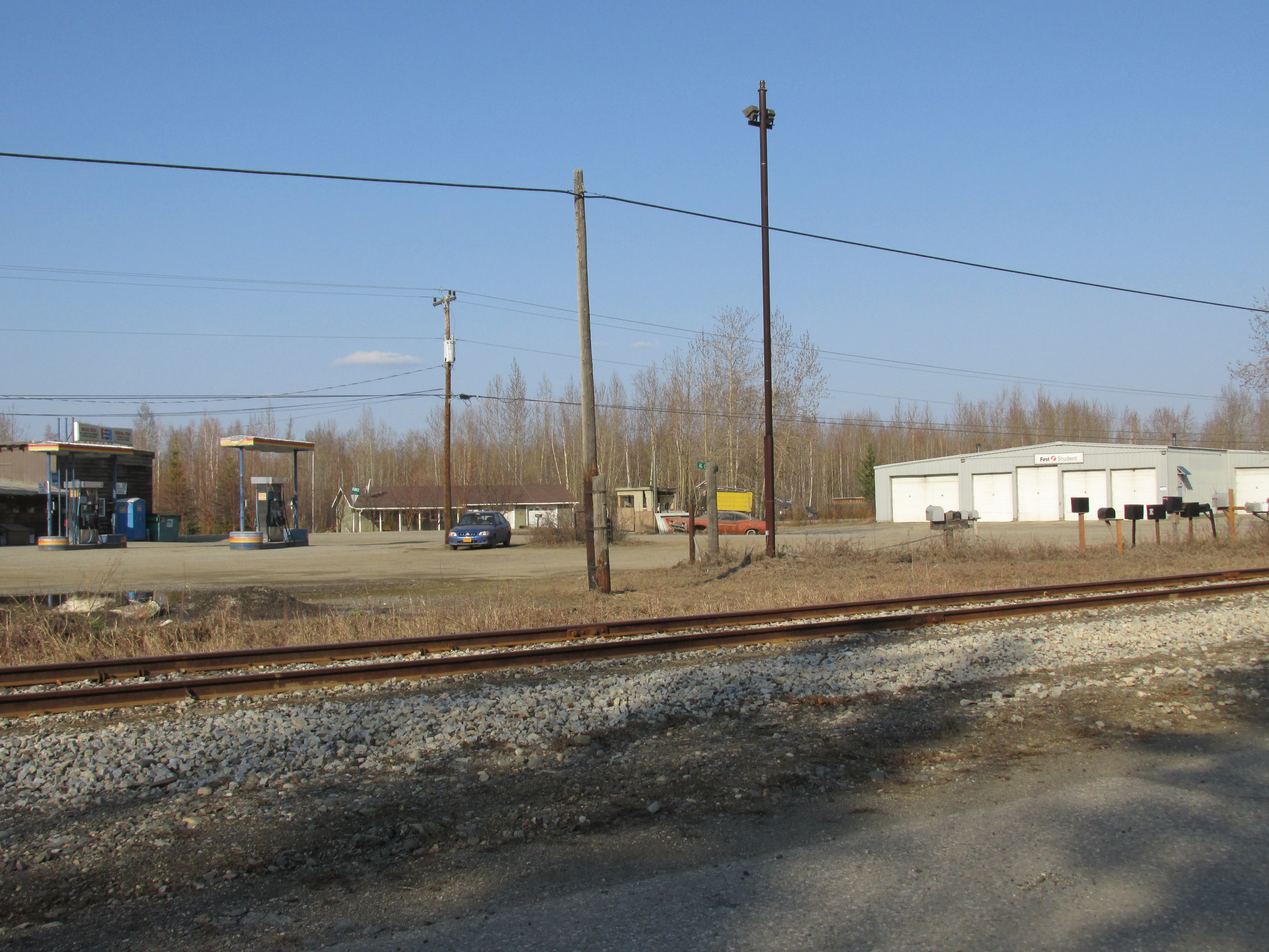 The "main intersection" of Moose Creek, Alaska, located a short distance from the exit off the Richardson Highway. Shown is part of the Moose Creek General Store (left) and First Student bus barn (right)